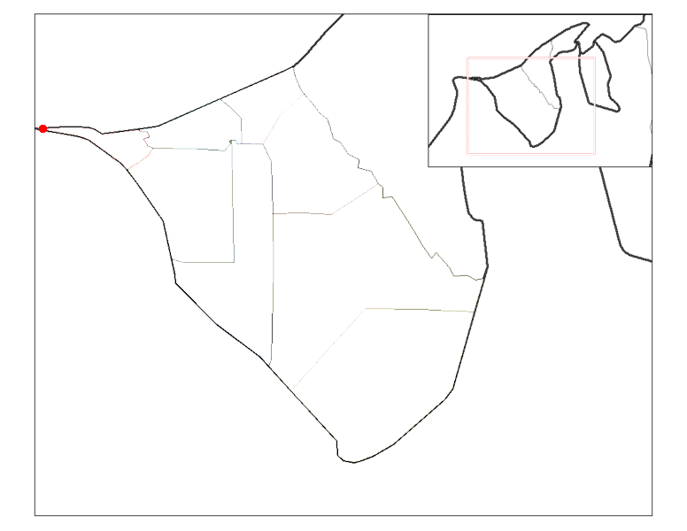 Modified version of Image:Belait mukims.png.